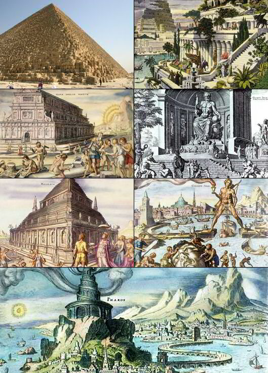 The seven wonders of the ancient world (from left to right, top to bottom): the Great Pyramid of Giza, the Hanging Gardens of Babylon, the Temple of Artemis at Ephesus, the Statue of Zeus at Olympia, the Mausoleum of Halicarnassus, the Colossus of Rhodes, and the Lighthouse of Alexandria.